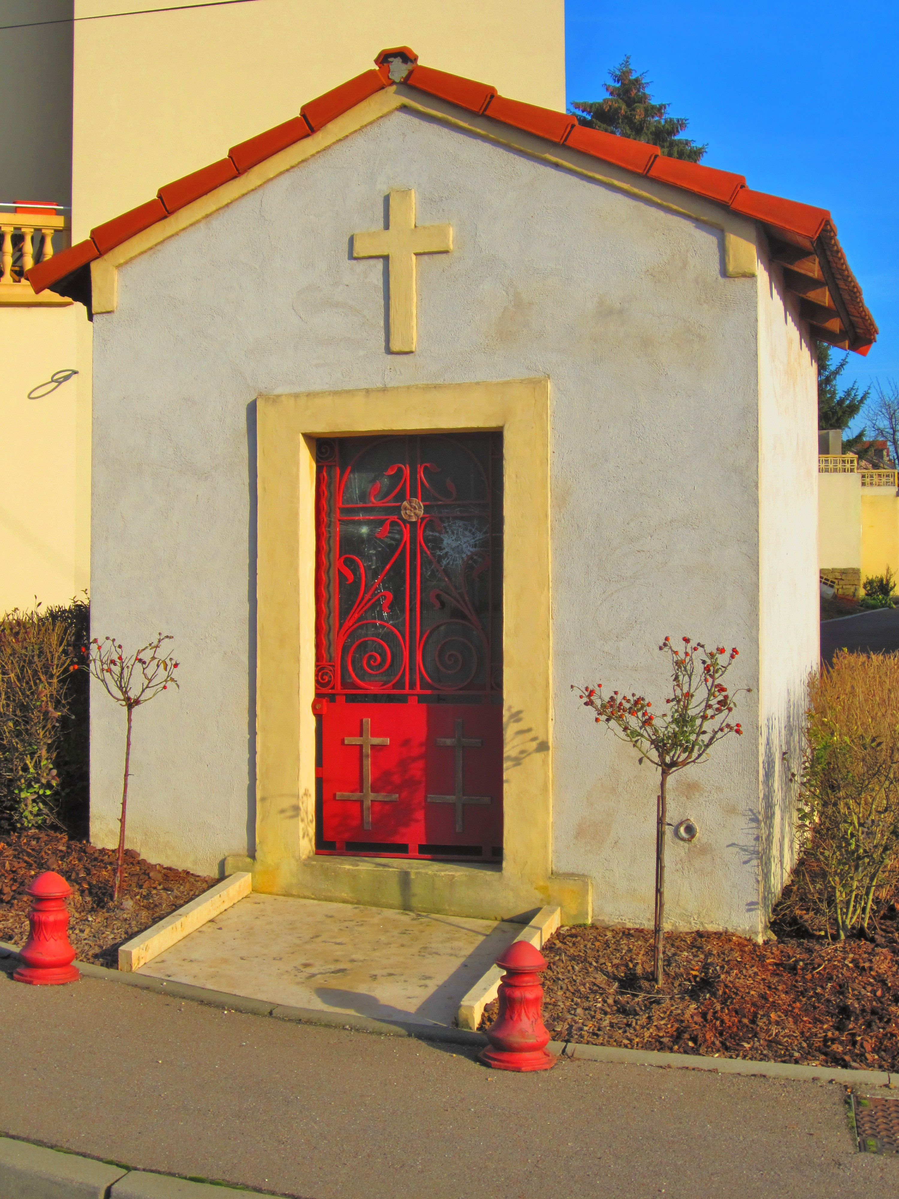 Vitry Orne chapel